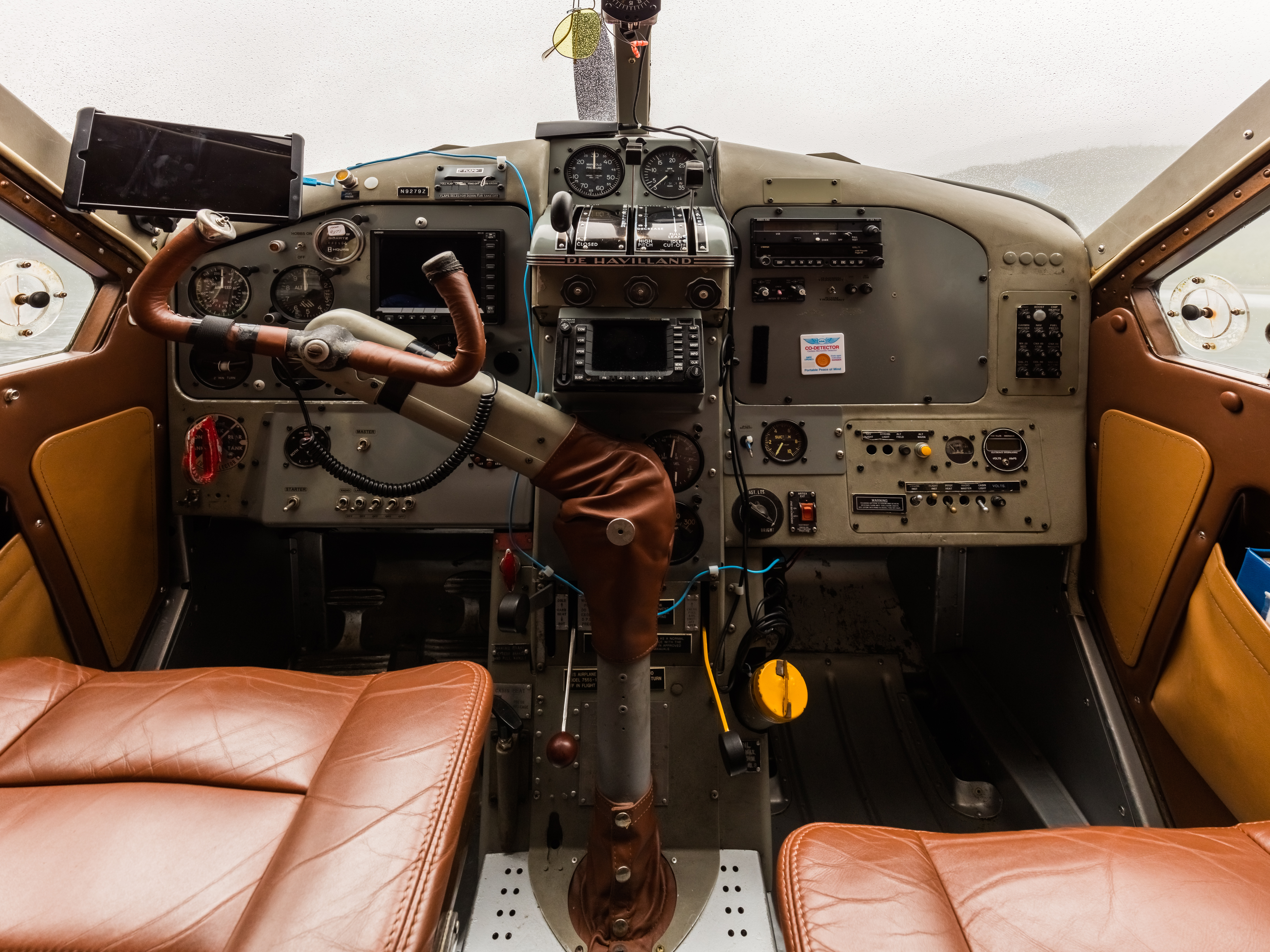 Cabin of a De Havilland Canada DHC-2 Beaver, Ketchikan, Alaska, United States